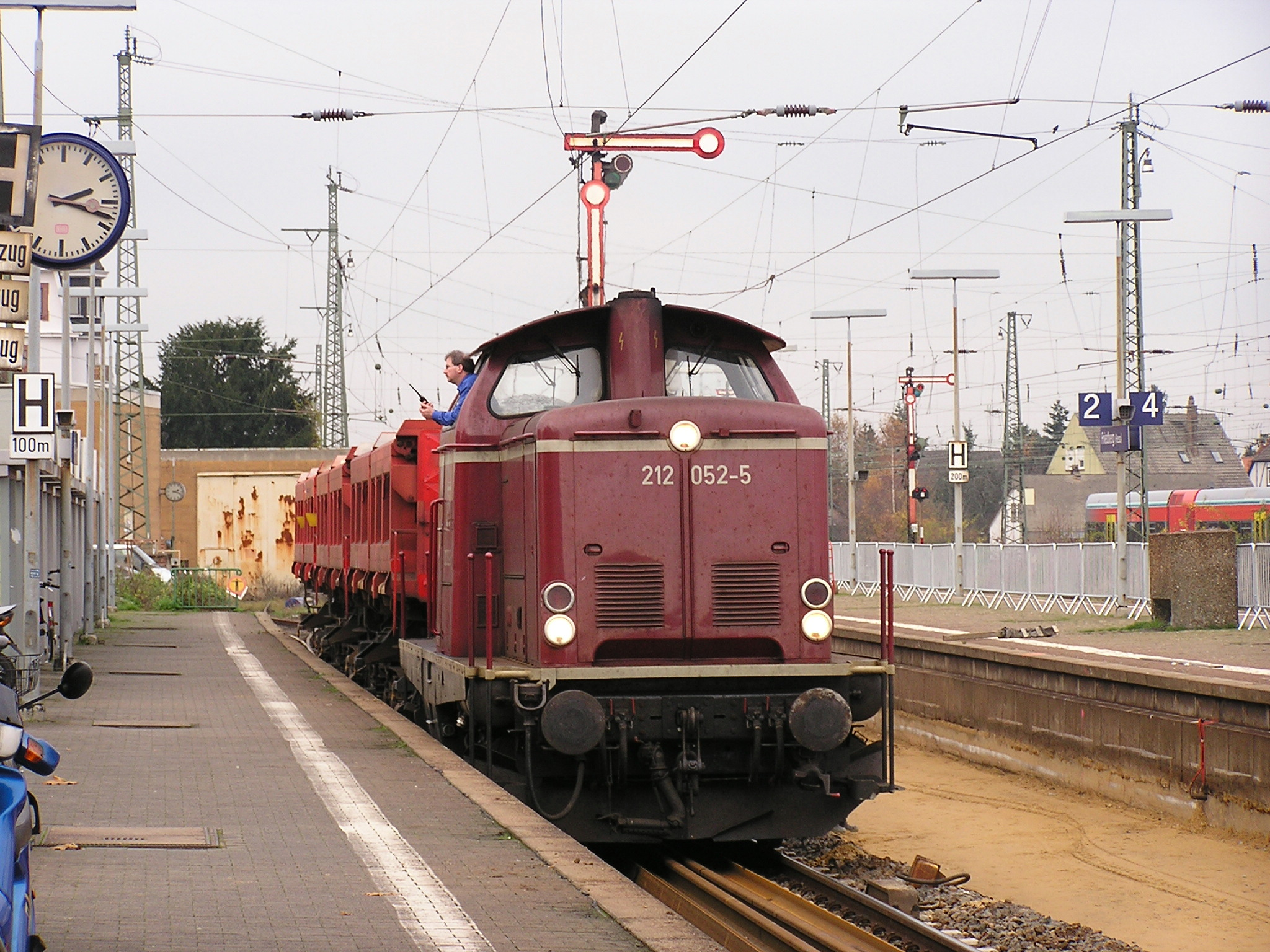 212 052-5 in Friedberg station